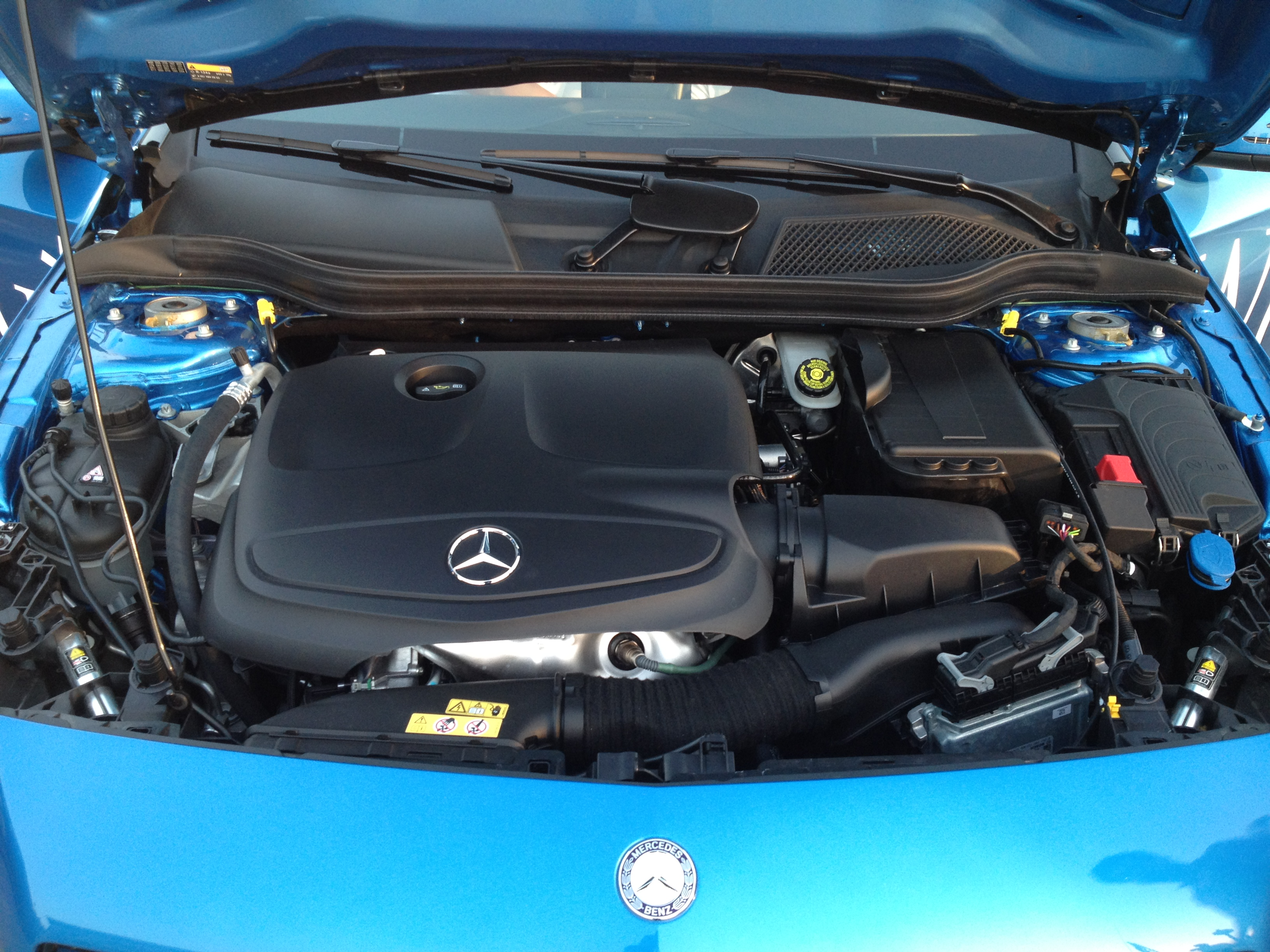 Mercedes A-Class 2012.